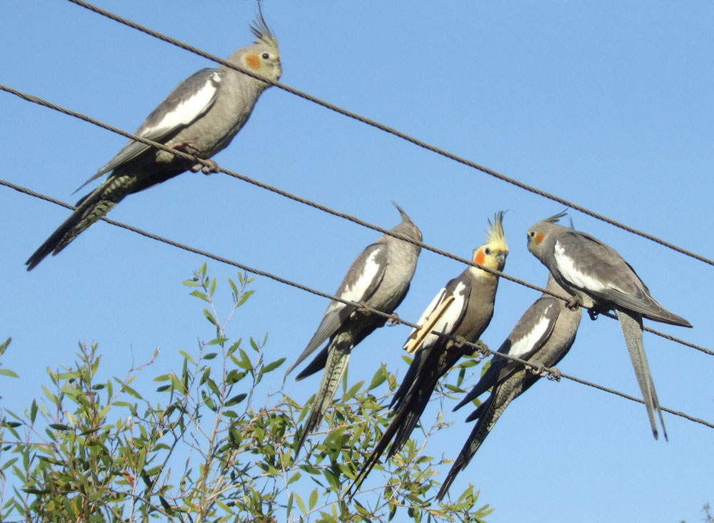 Cockatiels perching on wires in Australia.